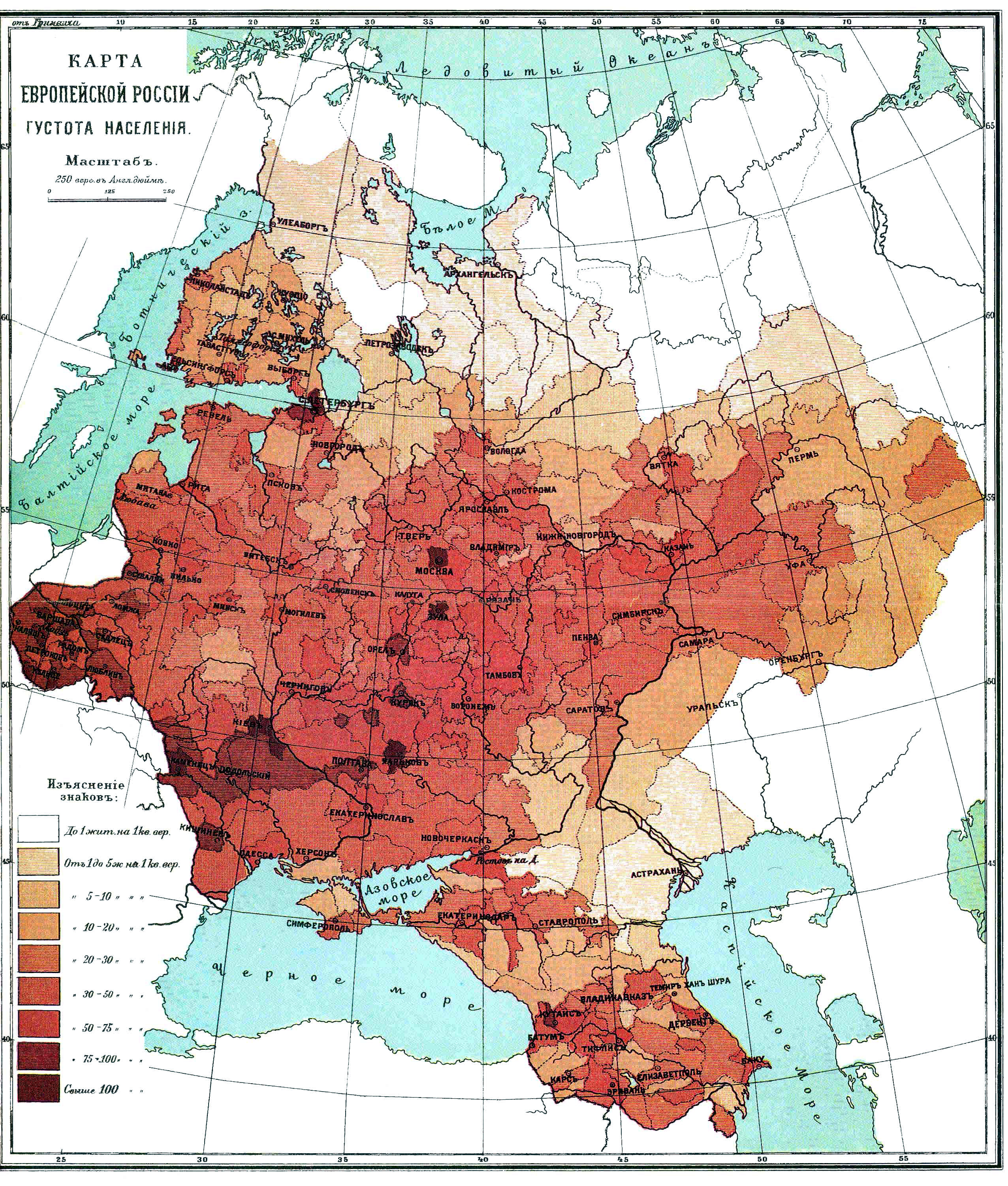 Illustration from Brockhaus and Efron Encyclopedic Dictionary (1890—1907)